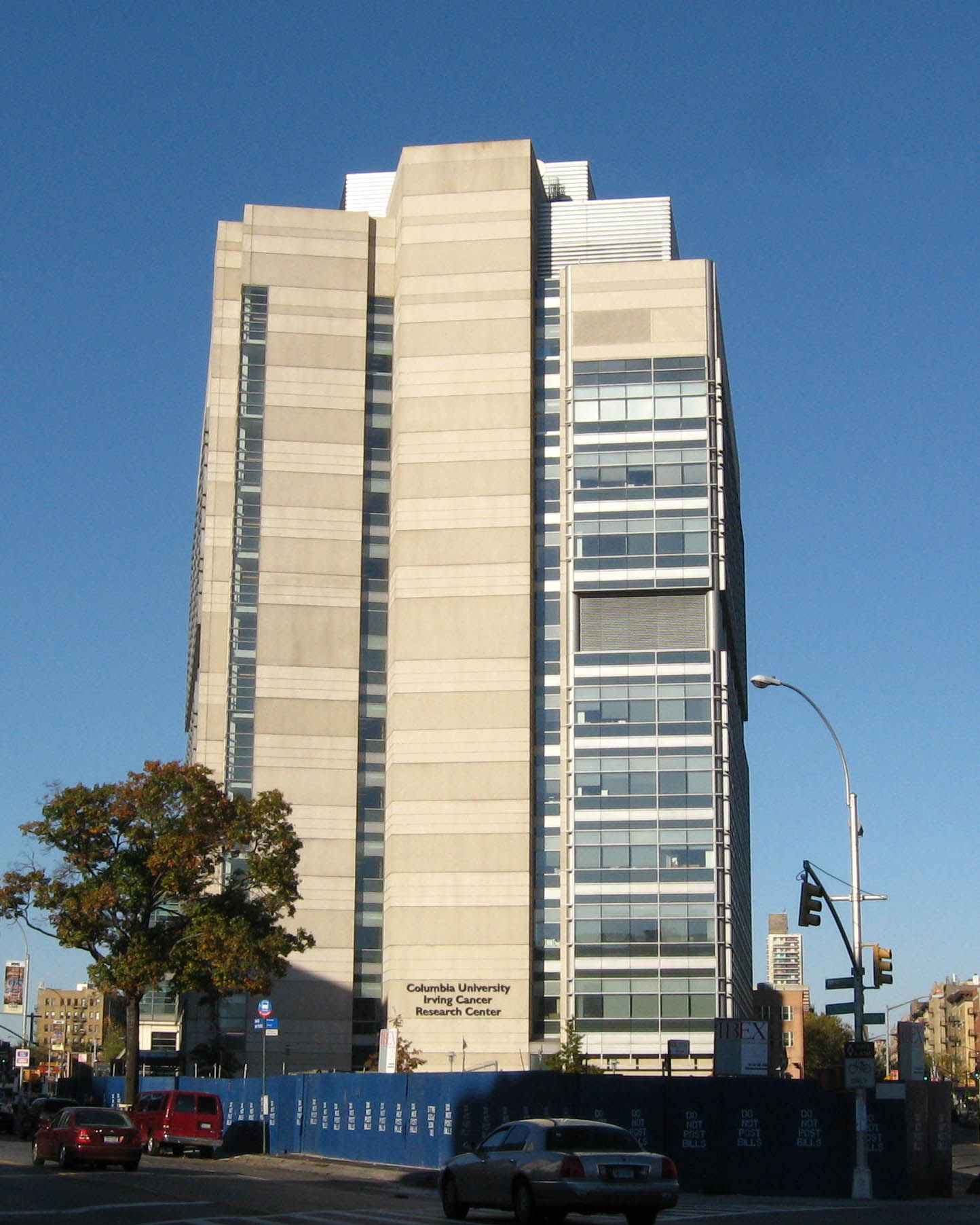 Looking north up St Nicholas Avenue across 165th Street at Columbia University Irving Comprehensive Cancer Research building on a sunny afternoon. ZIP 10032.